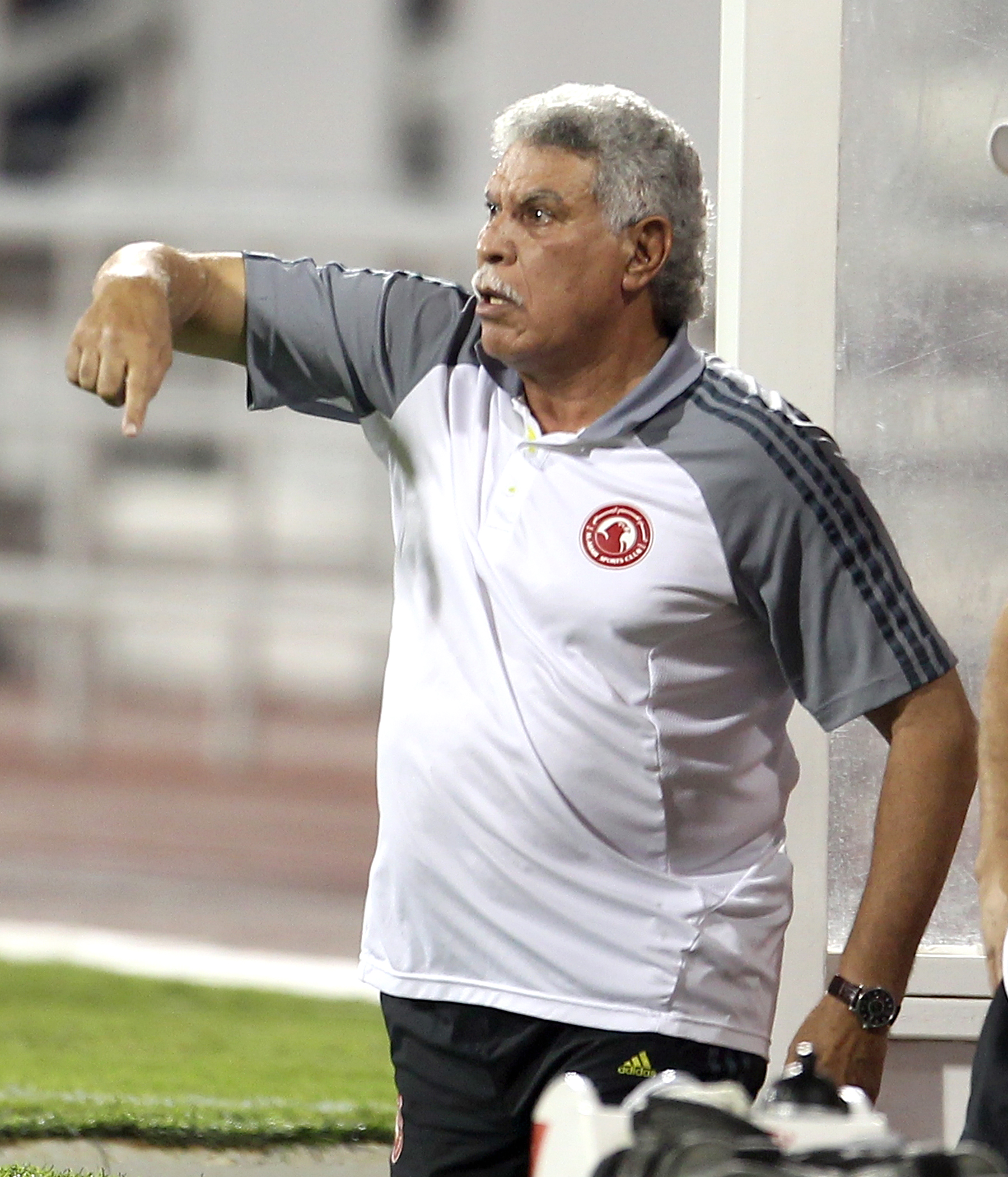 Al Arabi's Egyptian coach Hassan Shehata instructs his players during a Qatar Stars League match.